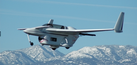 In-flight picture of the Long-EZ PDE aircraft flight on January 31, 2008 at the Mojave Air & Space Port.